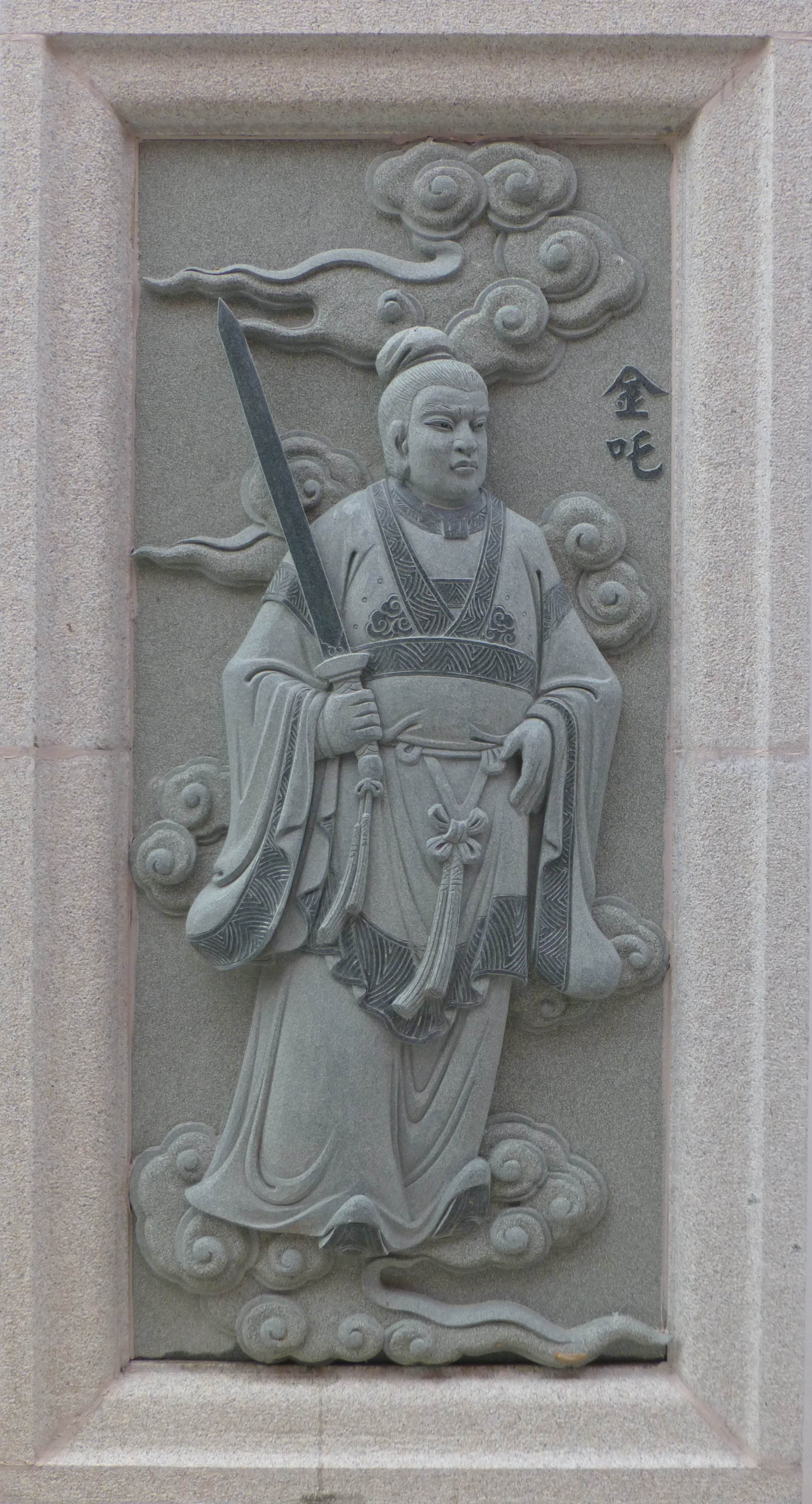 006 Jinzha, Investiture of the Gods at Ping Sien Si, Pasir Panjang, Perak, Malaysia Photograph from the Ping Sien Si Temple in Perak, Malaysia taken by Anandajoti.